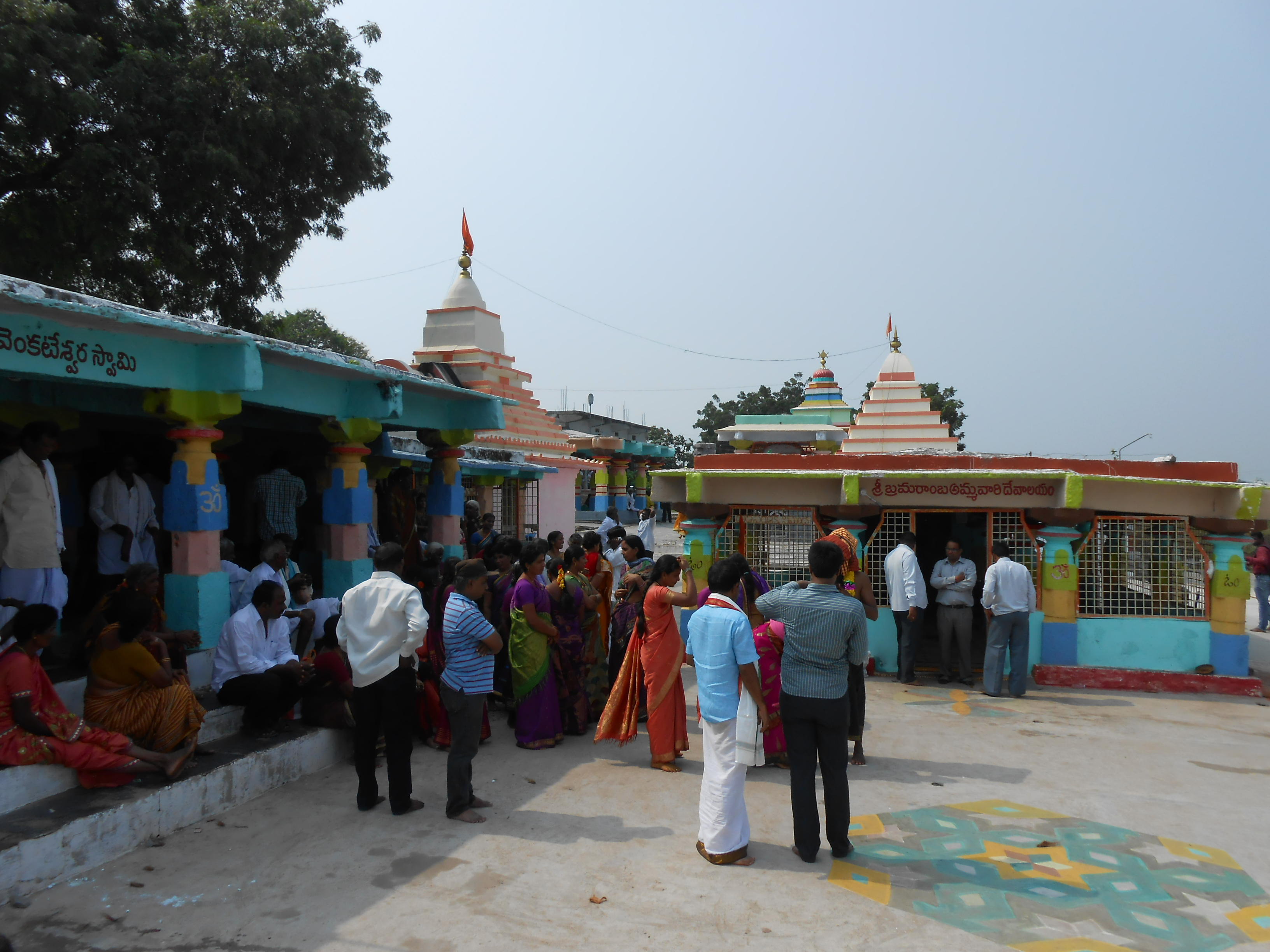 దేవాలయం